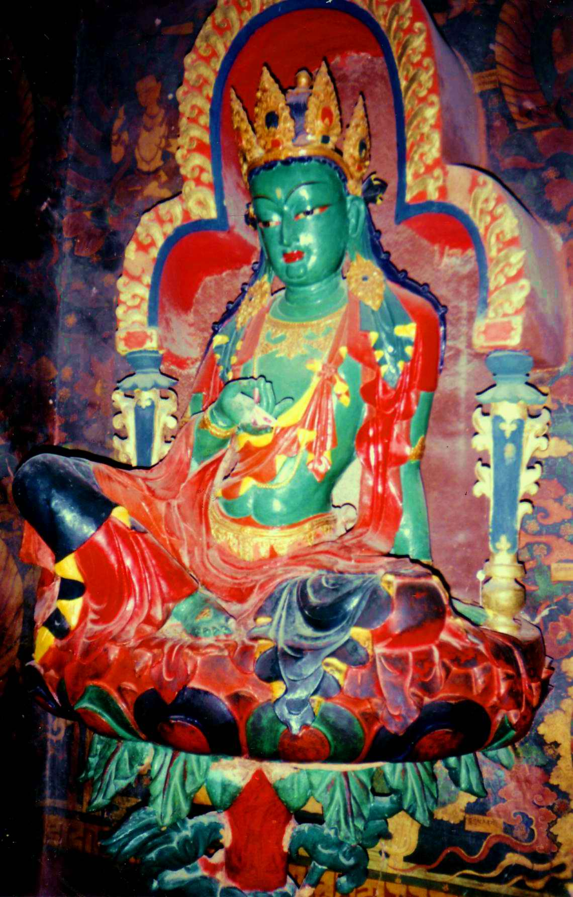 Green Tara — at Gyantse Kumbum, in Tibet. I took this photo in 1993.